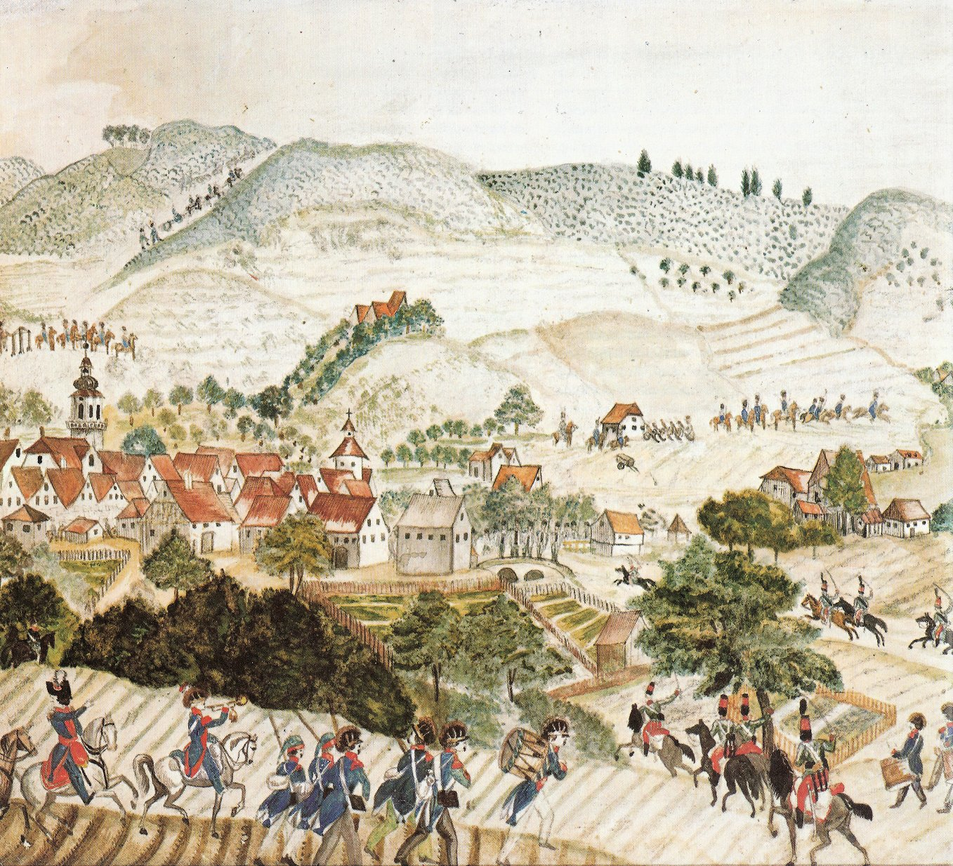 Attack on the City of Aalen in the course of the War of the First Coalition, 1796